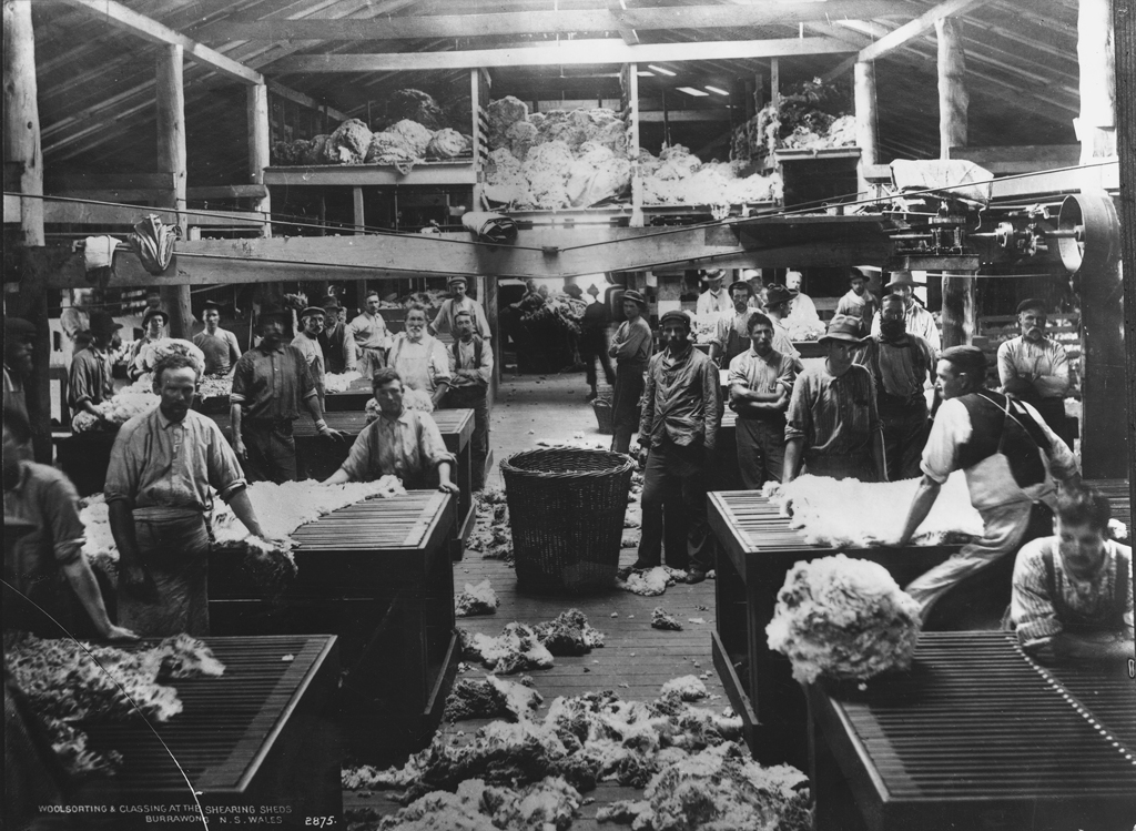 'Rural Life' Pictures from The Powerhouse Museum This file was posted to Flickr by The Powerhouse Museum (See the archive of their website for further information). Many thanks to the Powerhouse Museum for helping release this wonderful material. This tag does not indicate the copyright status of the attached work. A normal copyright tag is still required. See Commons:Licensing for more information.